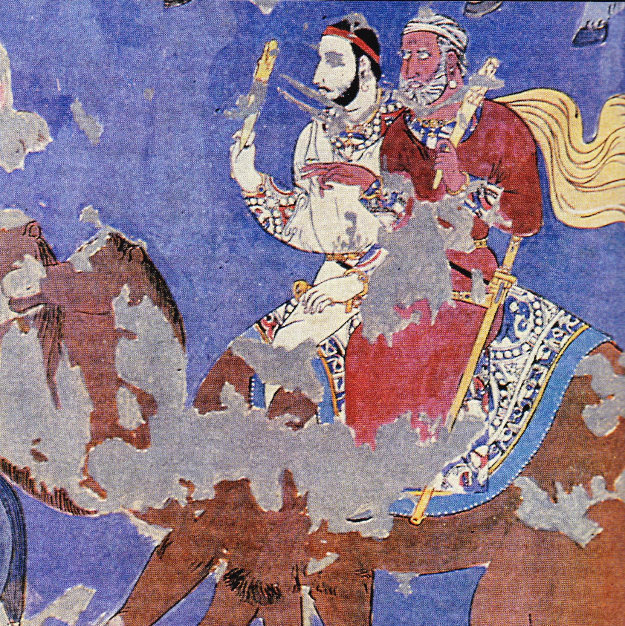 Details of a copy of mural called The Ambassordors' Painting, found in the hall of the ruin of an aristocratic house in Afrasiab, commissioned by the king of Samarkand, Varkhuman (ca. 650)